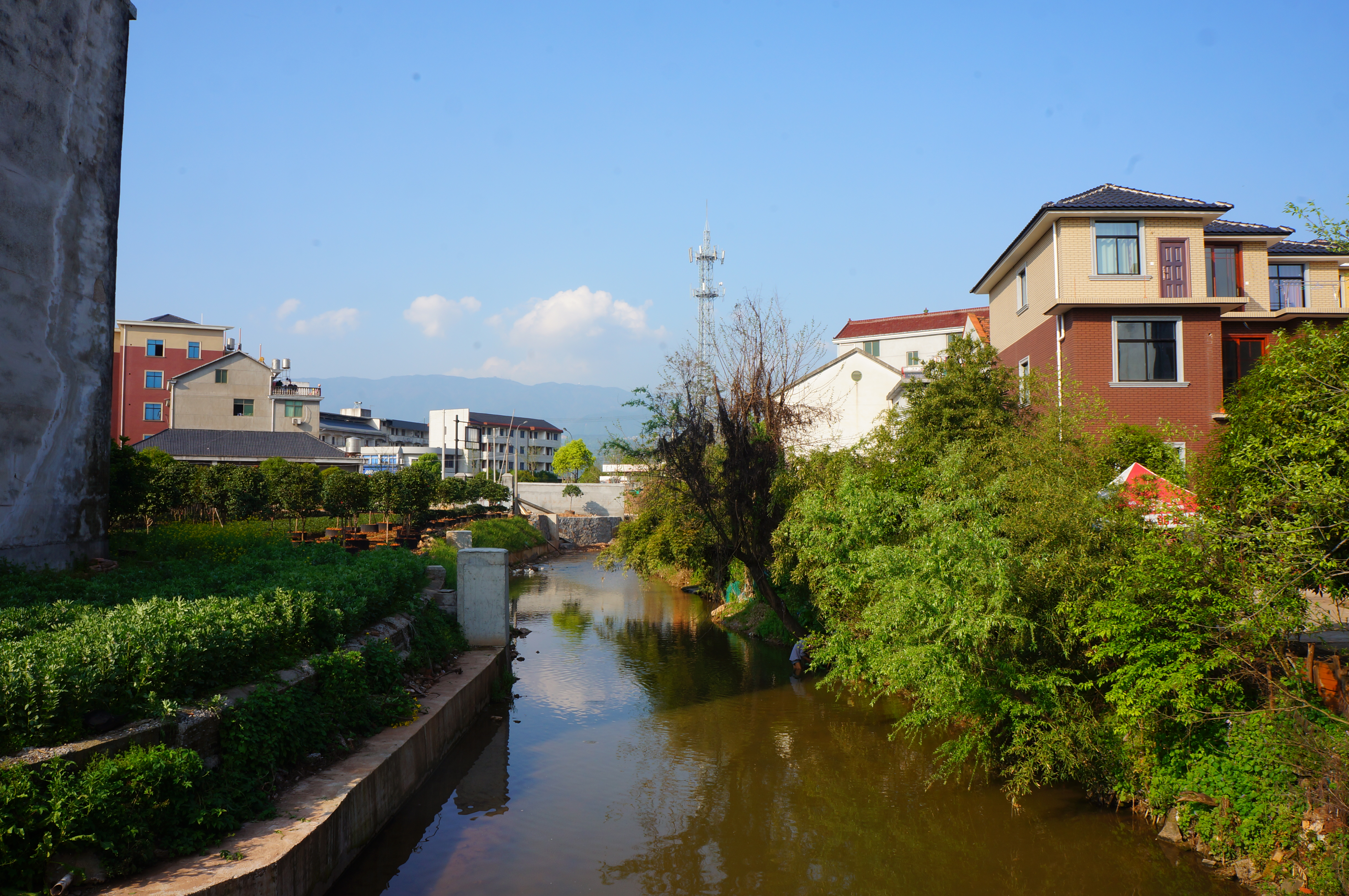 201704 Xizhai Village